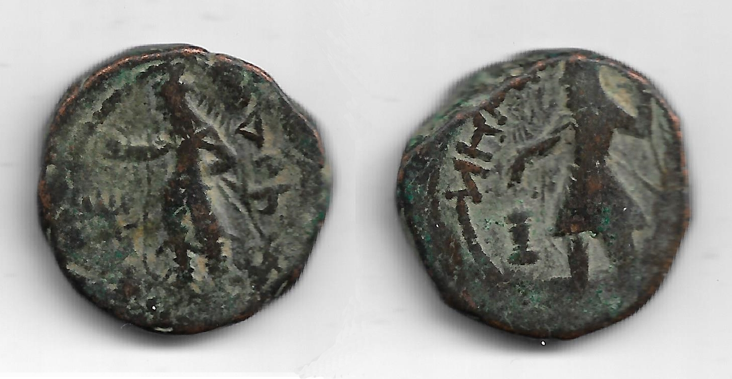 An ancient bronze coin from Bactria under the Kushan Empire. The coin has been minted c. 100–300 AD. The coin is a tetradrachm. The coin weights slightly above 8 grams, and has a diameter of approximately 20 millimeters. One side of the coin portrays a dismounted Kushan rider (left), and the other side portrays a diadem and a character with a sceptre.